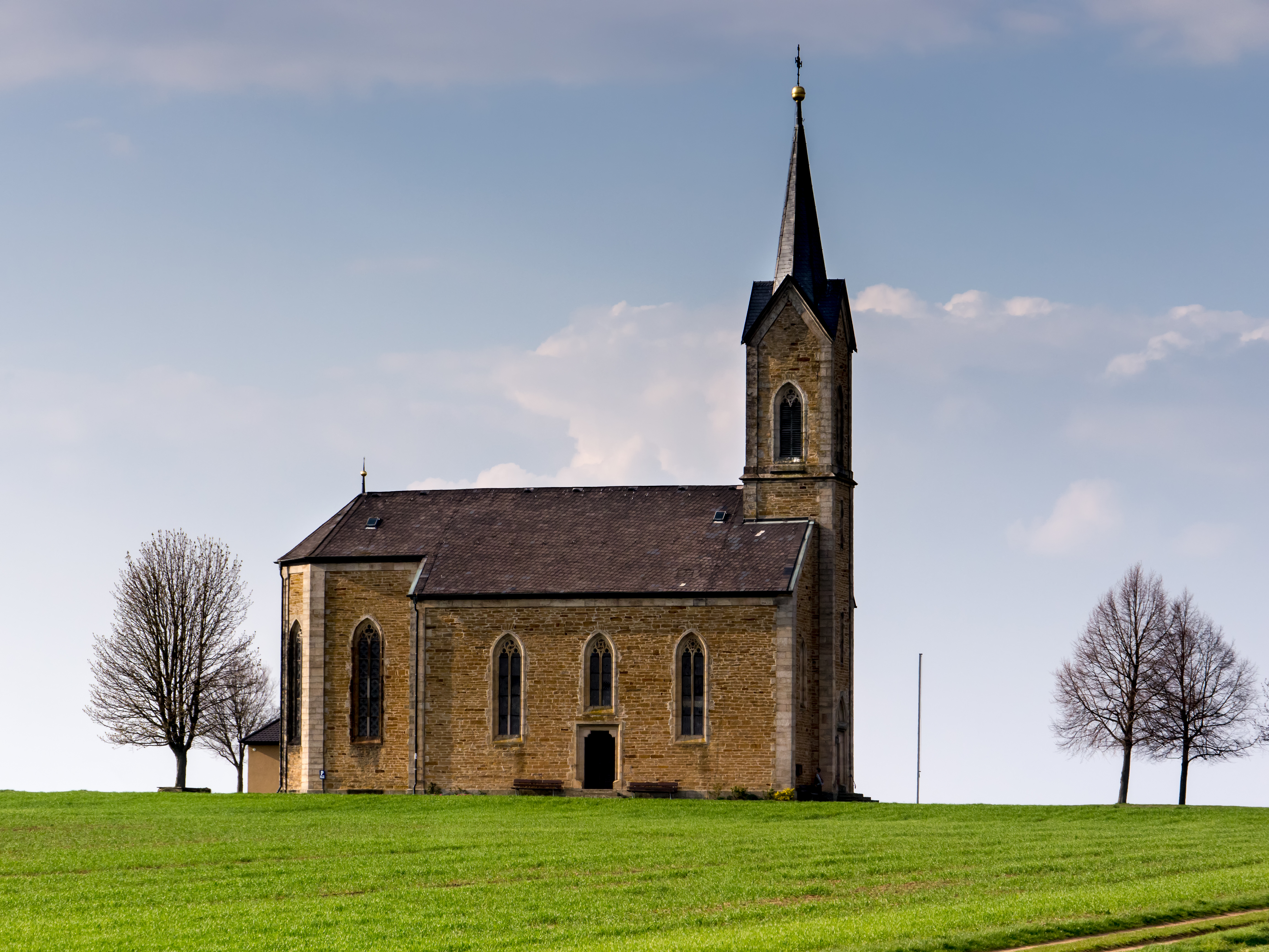 Pilgrimage Church of St. Mary Help of Christians